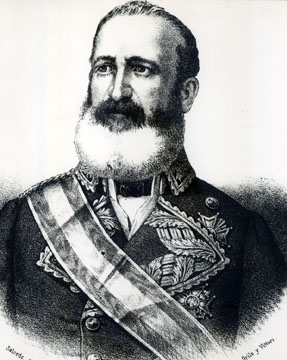 Carlos Maria de la Torre — the Spanish Governor-General of the Philippines (1869-1871). During his term the suspension of the tobacco monopoly was first considered.